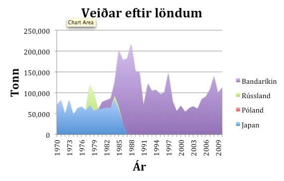 fisheries